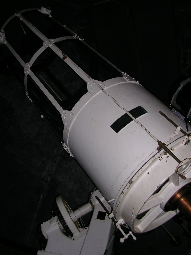 The Beck Telescope: a 0.75 meter (30-inch) Cassegrain reflector telescope in the Bradley Observatory at Agnes Scott College in Decatur, Georgia. 33°45′55″N 84°17′39″W / 33.76528°N 84.29417°W